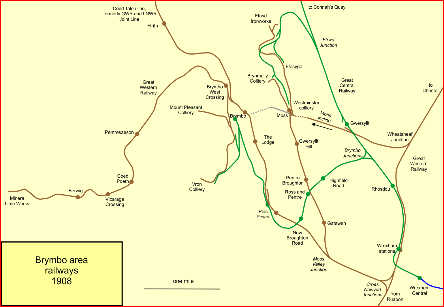 System map of the Railway lines around Brymbo, Wales, in 1908